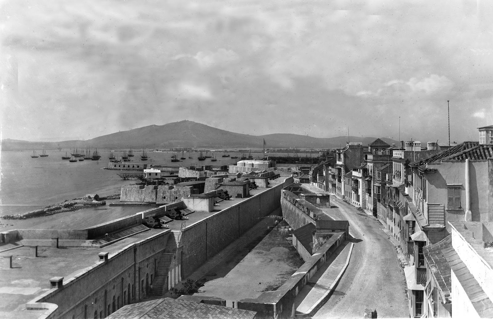 Line Wall North of Commercial Square. Photograph from c. 1880 byGeorge Washington Wilson (died 1893) of a place in Gibraltar - images found by Neville Chipolina